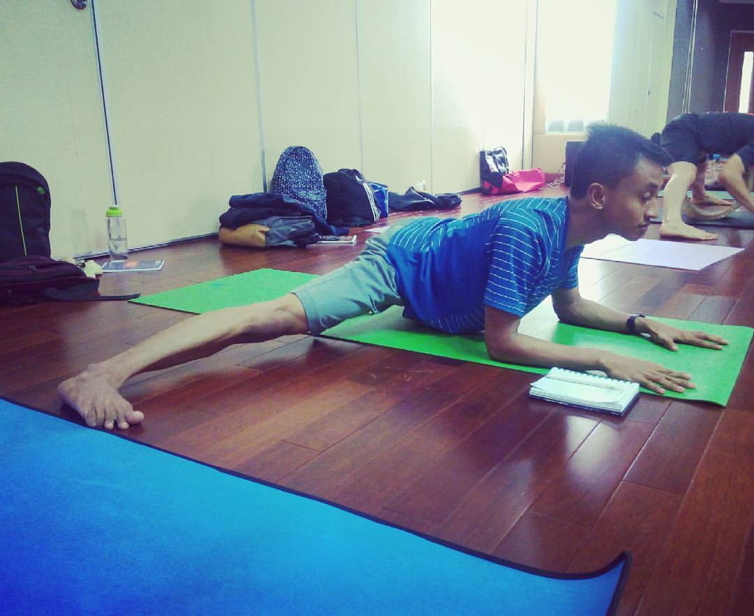 Akhlis, an Indonesian yogi, is performing full front split in a therapeutic yoga workshop in Jakarta on 20th February, 2016.